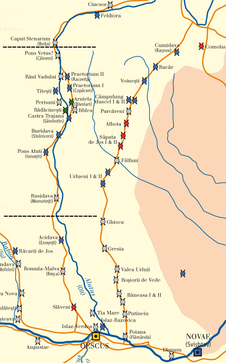 Limes Lutanus (left line) and Translutanus (right line) of the Roman limes in Dacia (Romania).